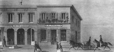 Store front of business owned by Abner Francis Hunt